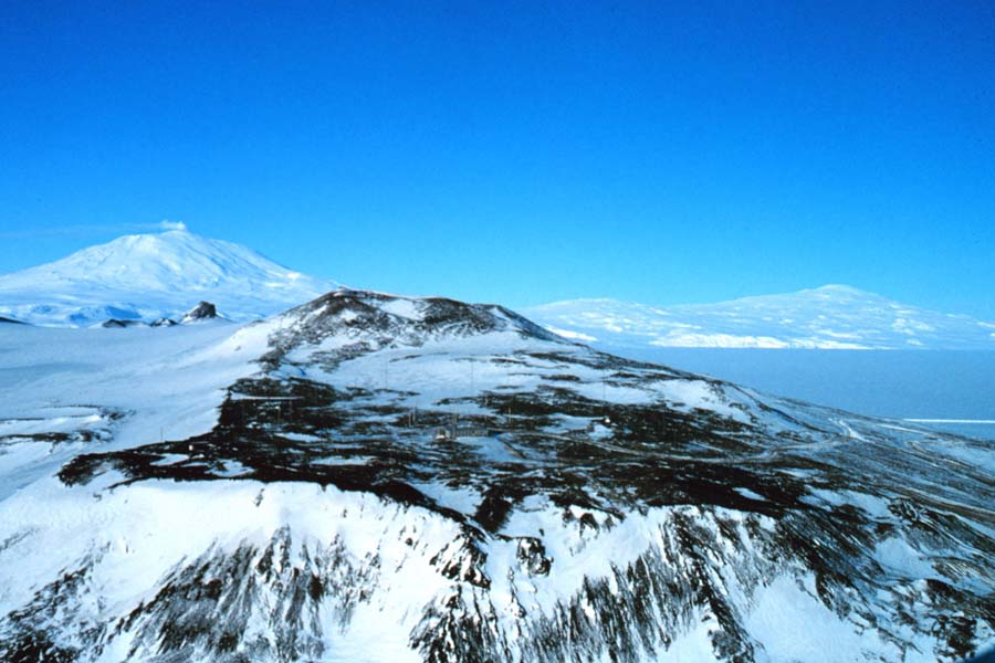 Panorama of Ross Island showing Hut Point Peninsula (foreground), Mount Erebus (left) and Mount Terror (right), Antarctica.